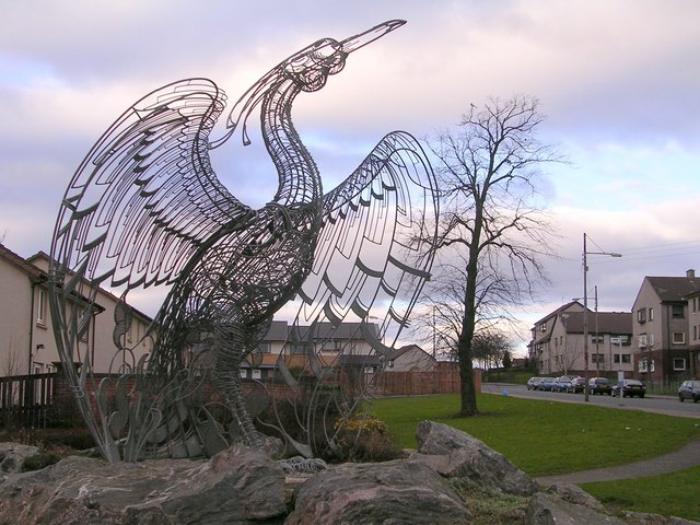 The Easterhouse Phoenix. Impressive sculpture on Easterhouse Road by Andy Scott. The phoenix rising from the ashes is supposed to represent regeneration of this poverty-stricken region of Glasgow.